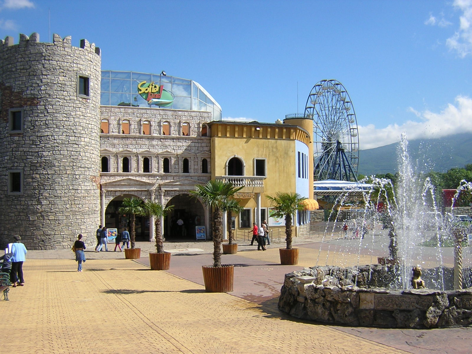 The entrance to Sofia Land amusement park, Sofia, Bulgaria